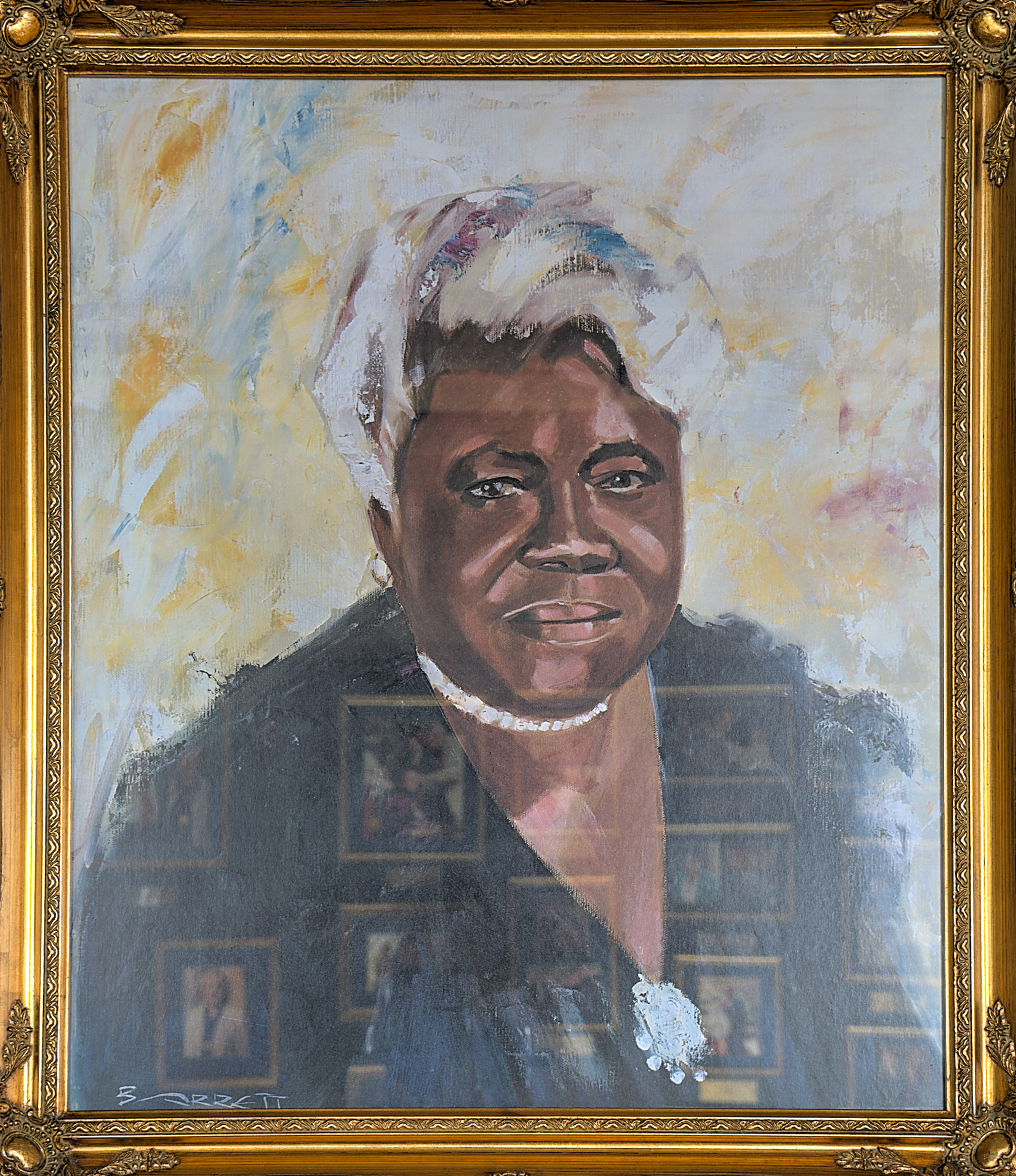 Painting of Mary McLeod Bethune (1875 - 1955) at the World Methodist Museum